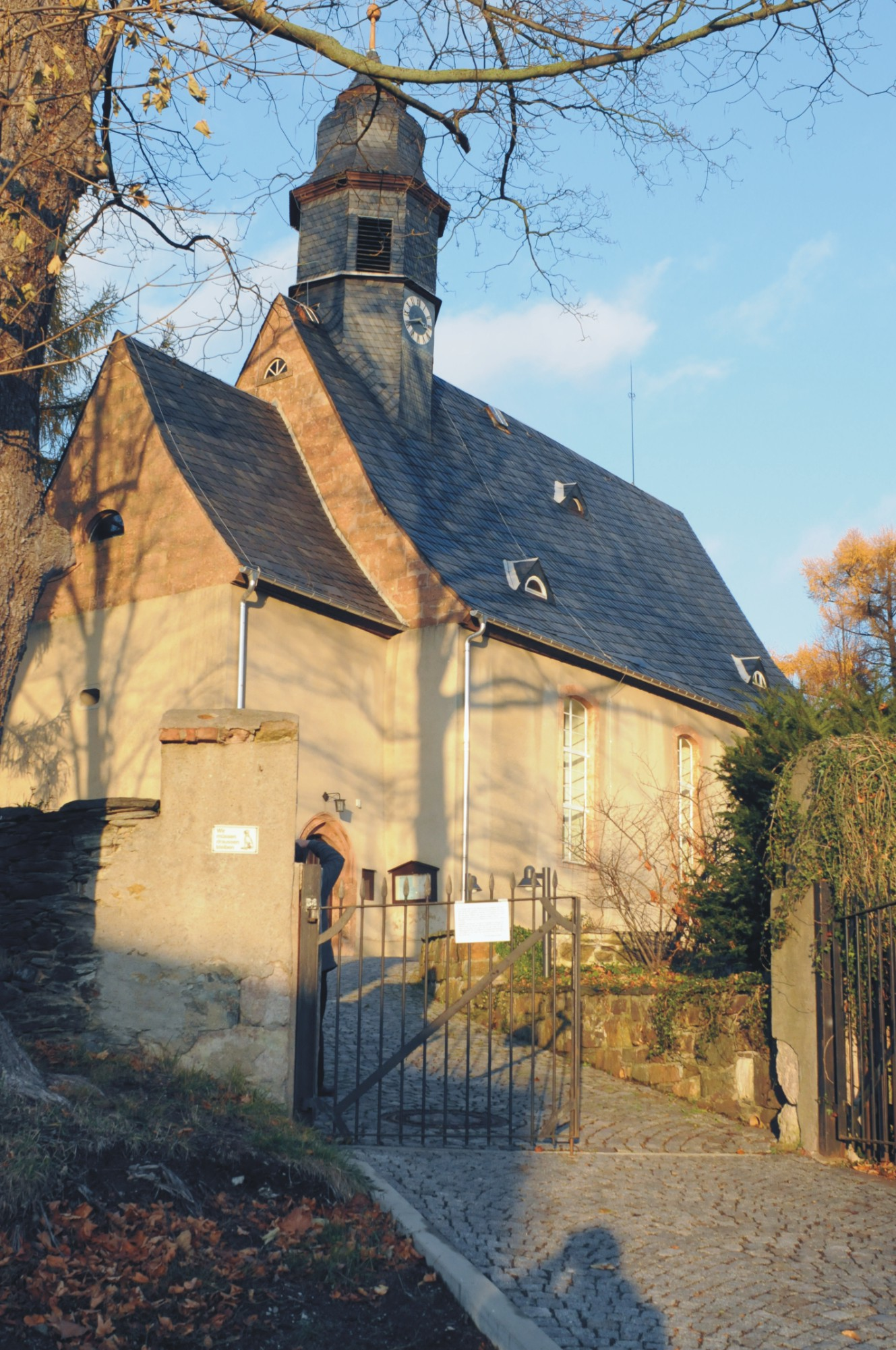 Church of Chemnitz-Adelsberg